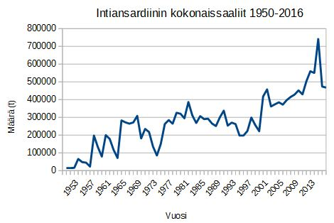 Catch of Indian oil sardine 1950-2016 (FAO)